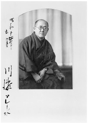 Signed and dated publicity photo of Japanese artist Hasui Kawase